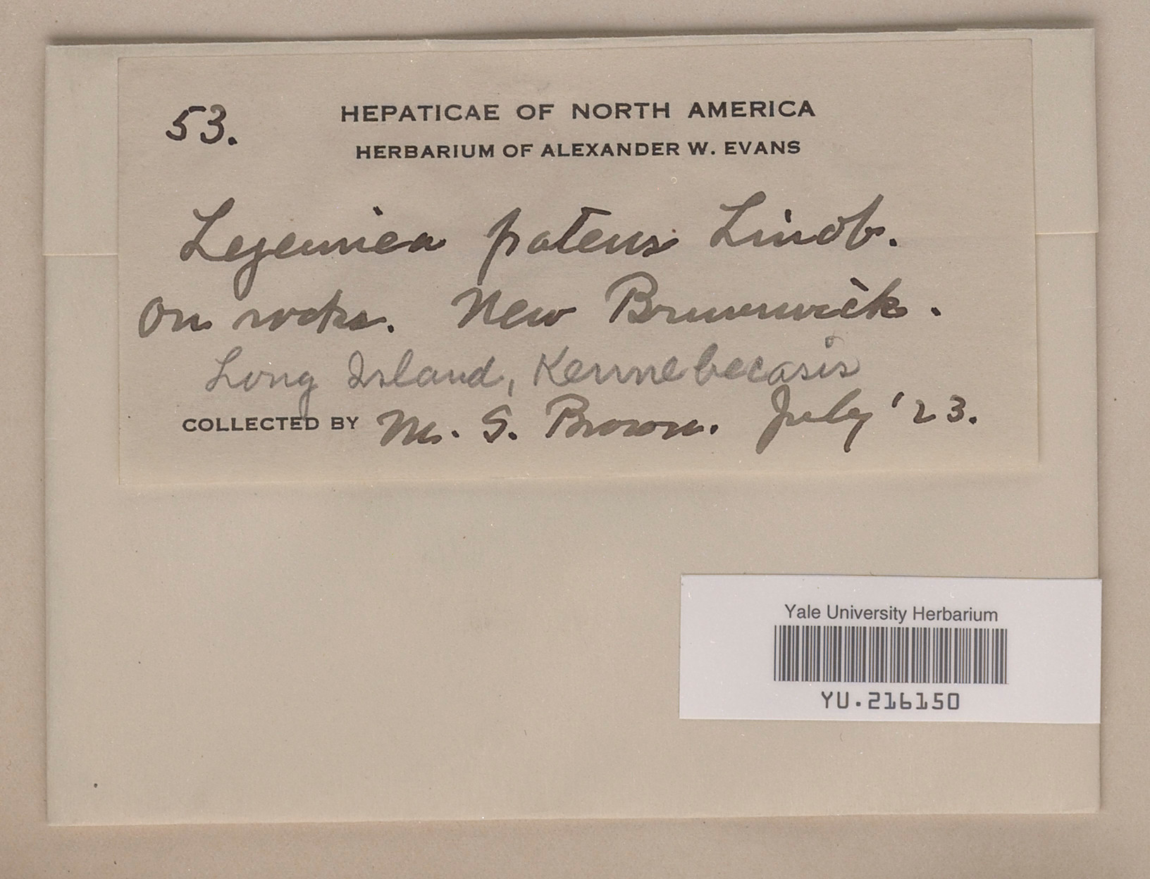 Catalog #: YU.216150 Occurrence ID (GUID): urn:uuid:3a1786b0-6dfd-462d-9564-58a98a3417b3 Taxon: Lejeunea patens Lindb. Family: Lejeuneaceae Collector: Margaret Sibella Brown 53 Date: 1923-07-00 Verbatim Date: July '23. Locality: Canada, New Brunswick, Long Island, Kennebecasis [Bay or River] Habitat: On rocks.